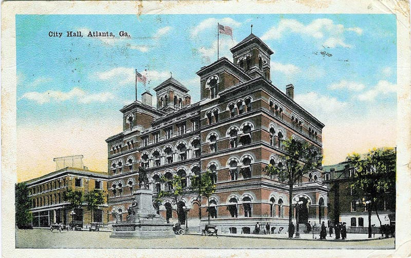 U.S. Post Office and Customs House (Atlanta) when used as City Hall 1910s-1920s